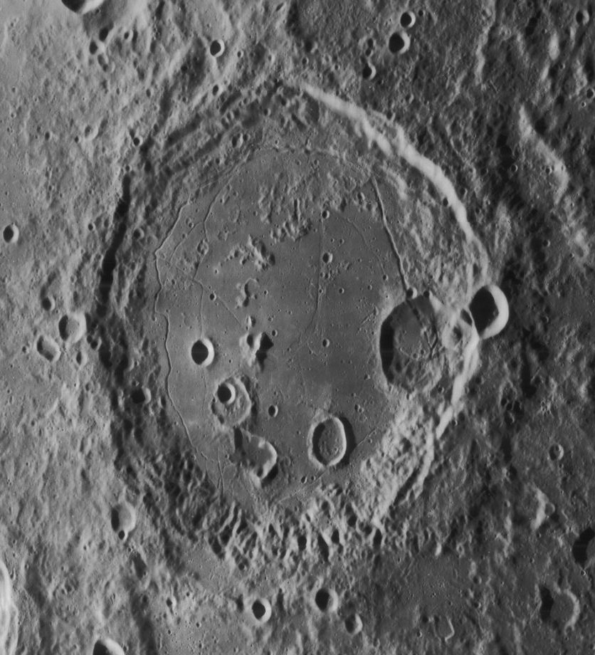 Oblique view of Gauss, on the moon.